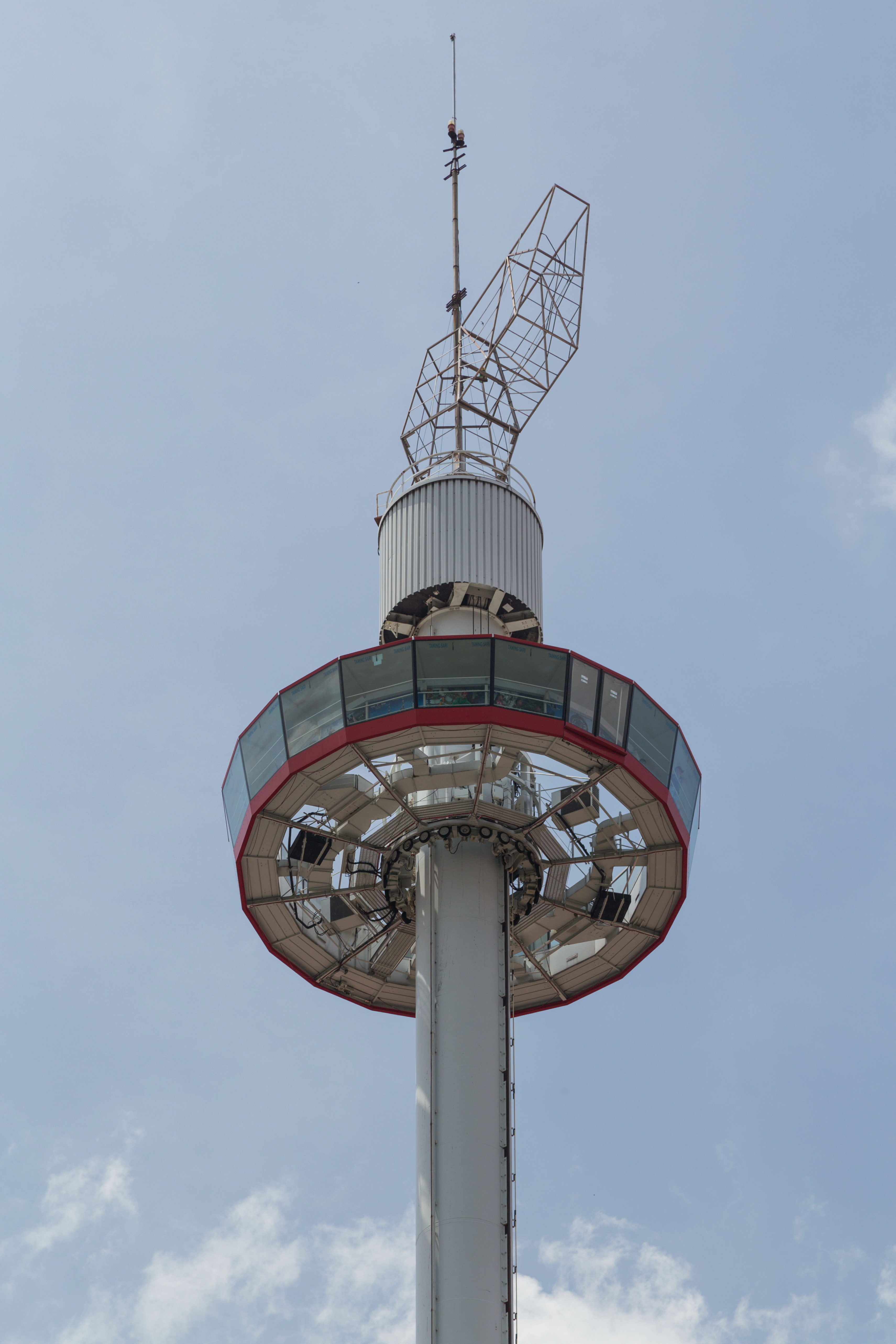 Taming Sari Tower. Malacca City, Malacca, Malaysia.